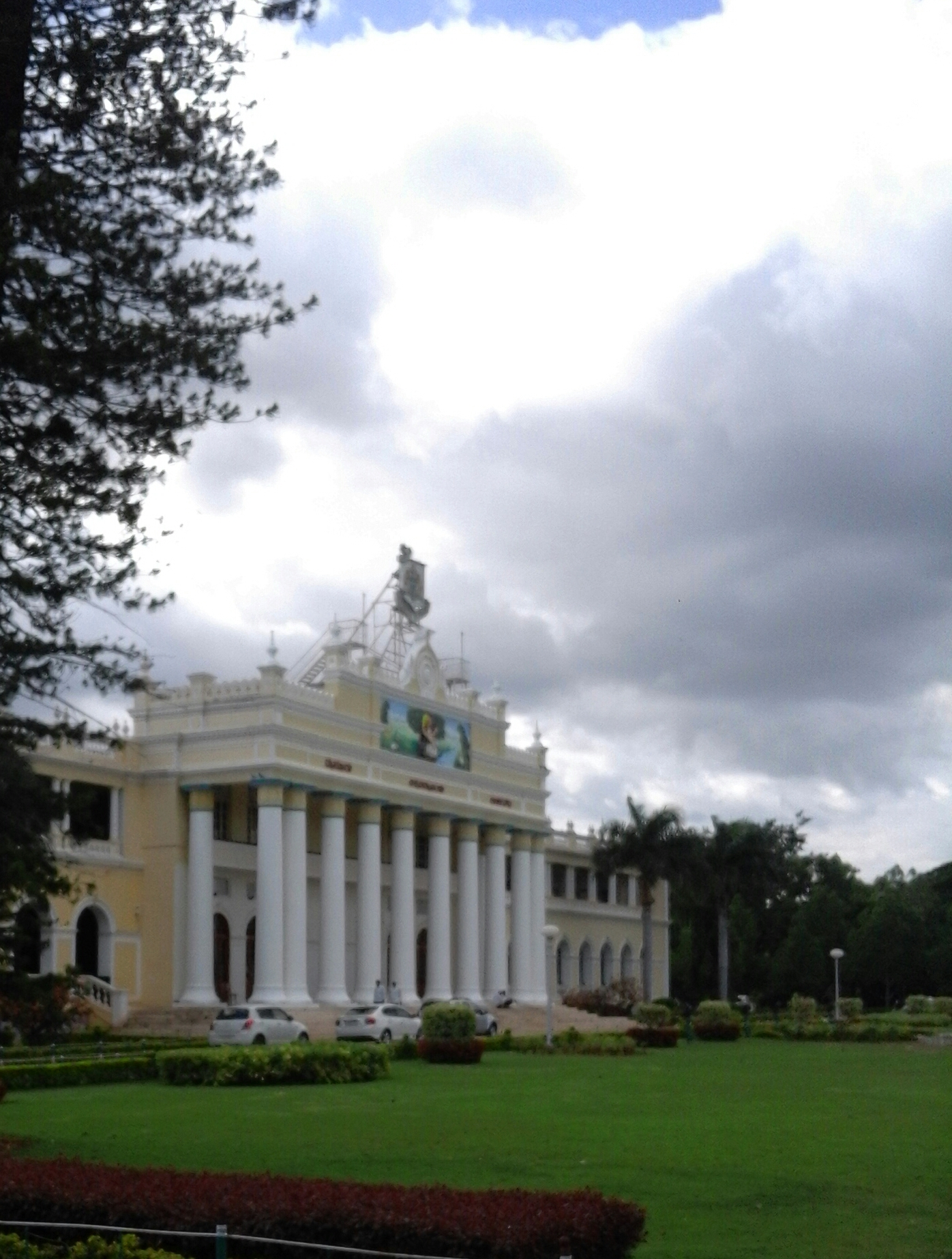 Mysore city, Karnataka state, India